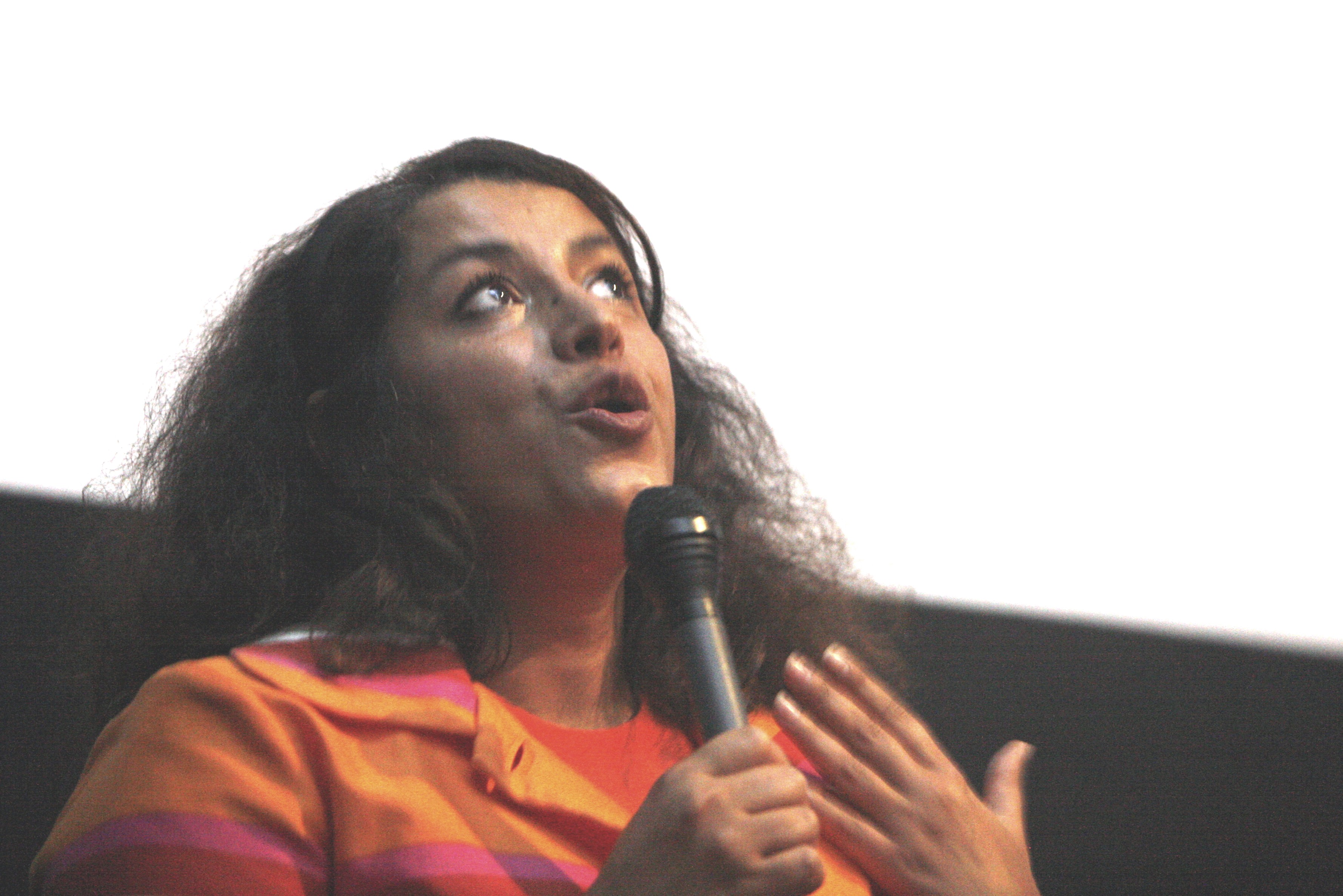 Marjane Satrapi during a premiere of her film Persepolis